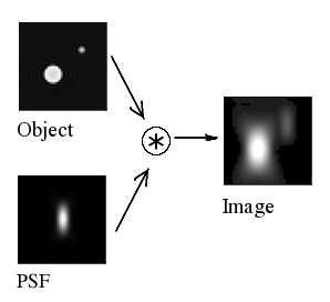 Convolution illustrated: longitudinal (XZ) central slice of a 3D image acquired by a fluorescence microscope.